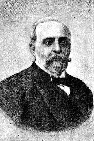 Pascual Coming